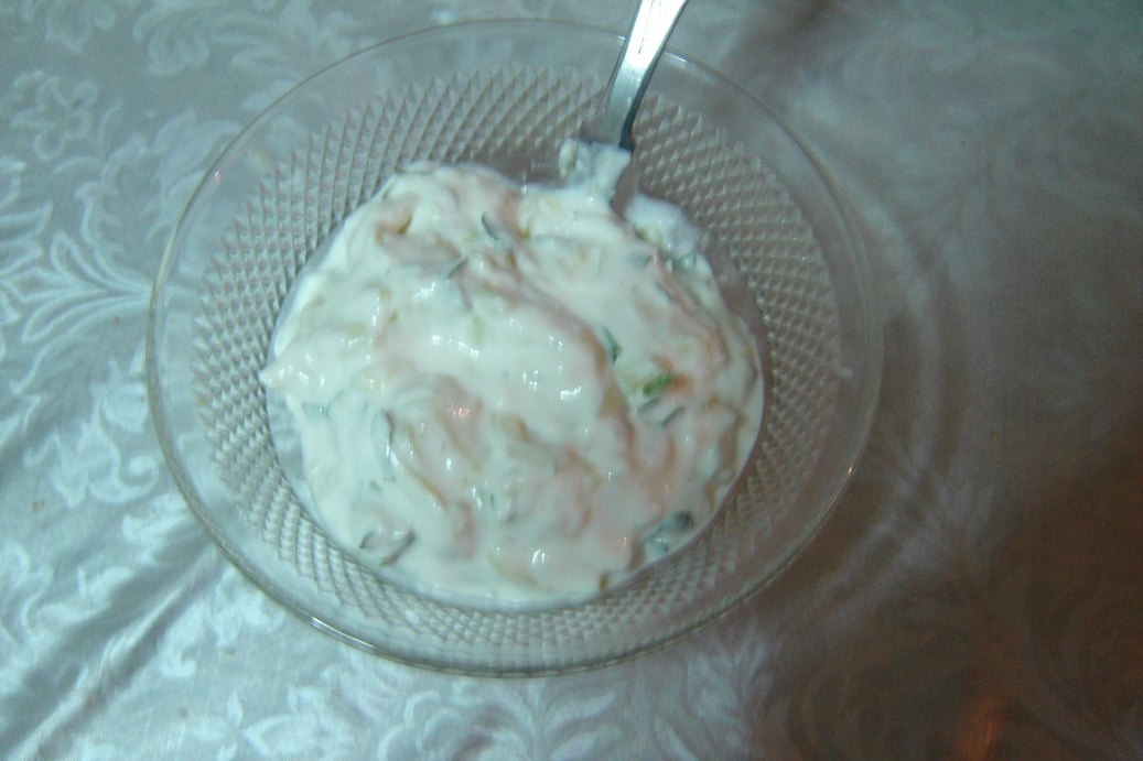 Tzatziki in a glass bowl. Not the clearest of pictures, but representative of the condiment and its texture nonetheless.